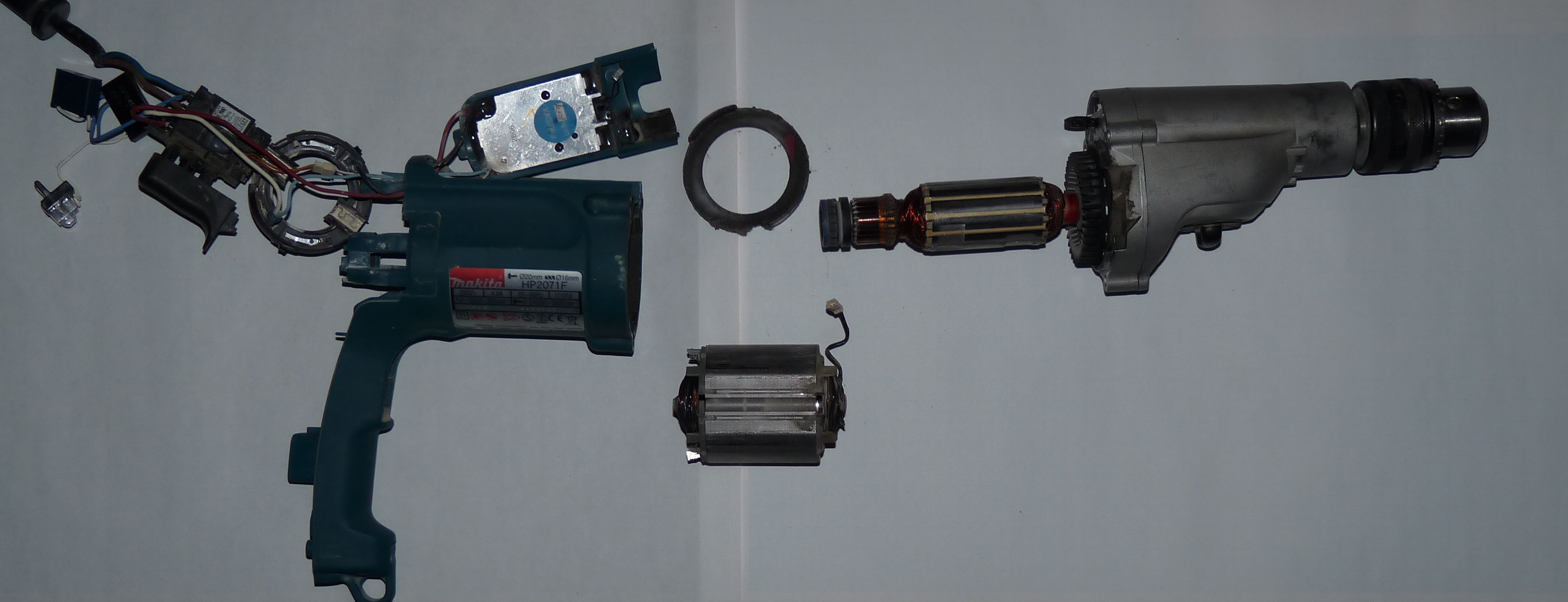 This time my drill fell a victim of USSR concrete. As you can see, even 1000 watts are not enough.